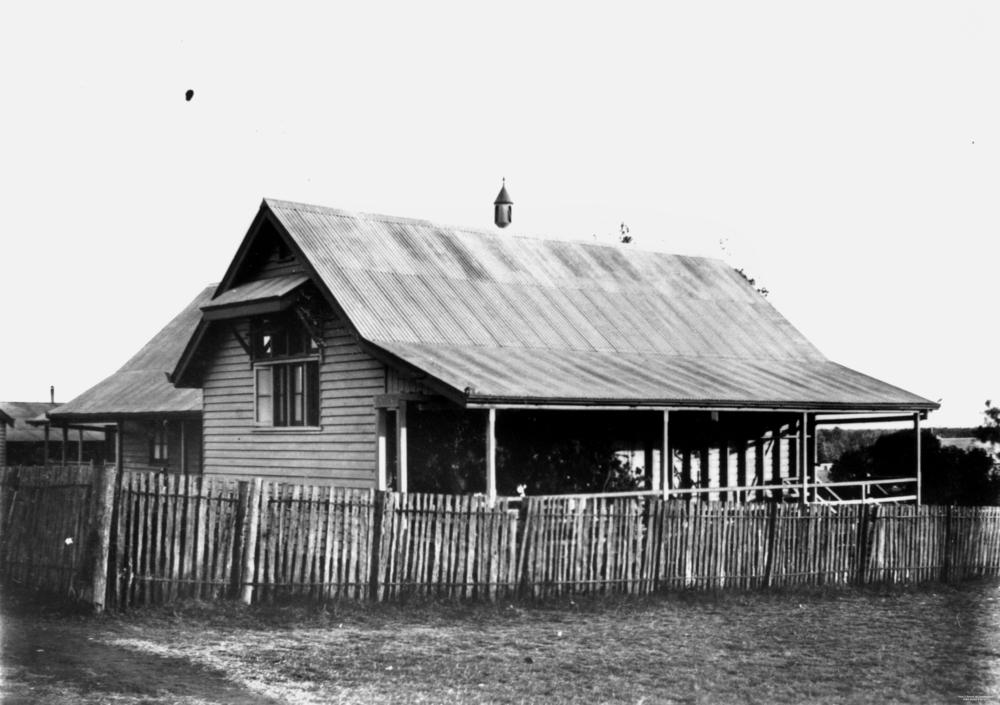 Taroom State School, ca. 1912. Exterior view of Taroom State School. A single room constituted the old school building, with a narrow front verandah and a corrugated iron roof. The building is surrounded by a wooden fence.